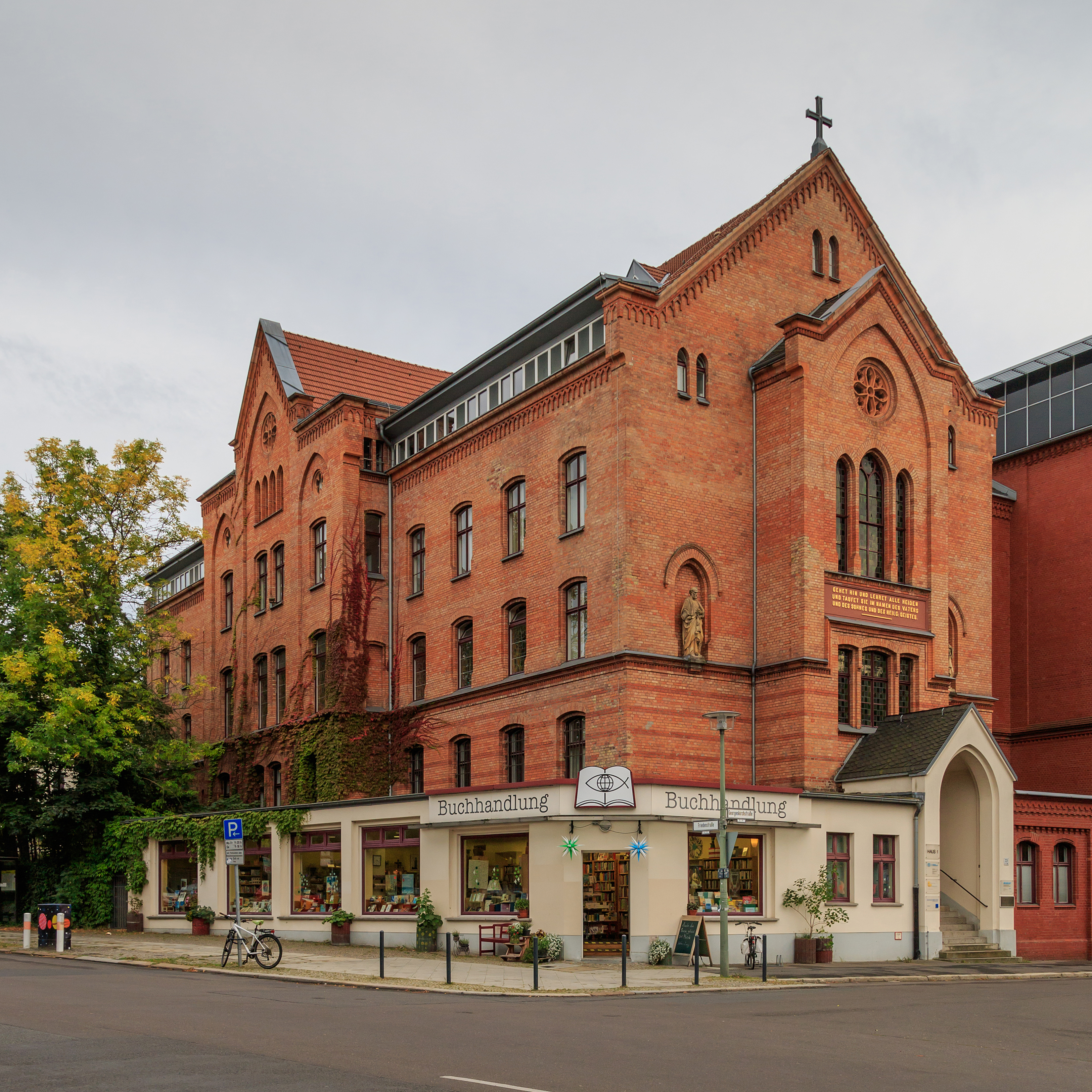 House of Protestant Mission Friedrichshain in Berlin (Germany)